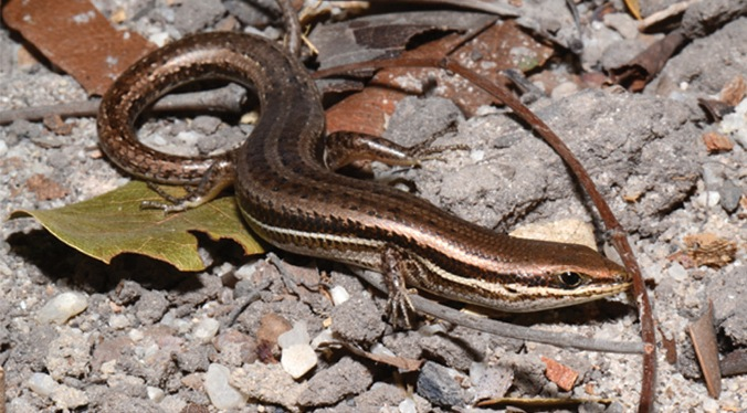 Brasiliscincus heathi in Lençóis Maranhenses National Park, Maranhão State, Northeastern Brazil. Photo by J. P. Miranda.